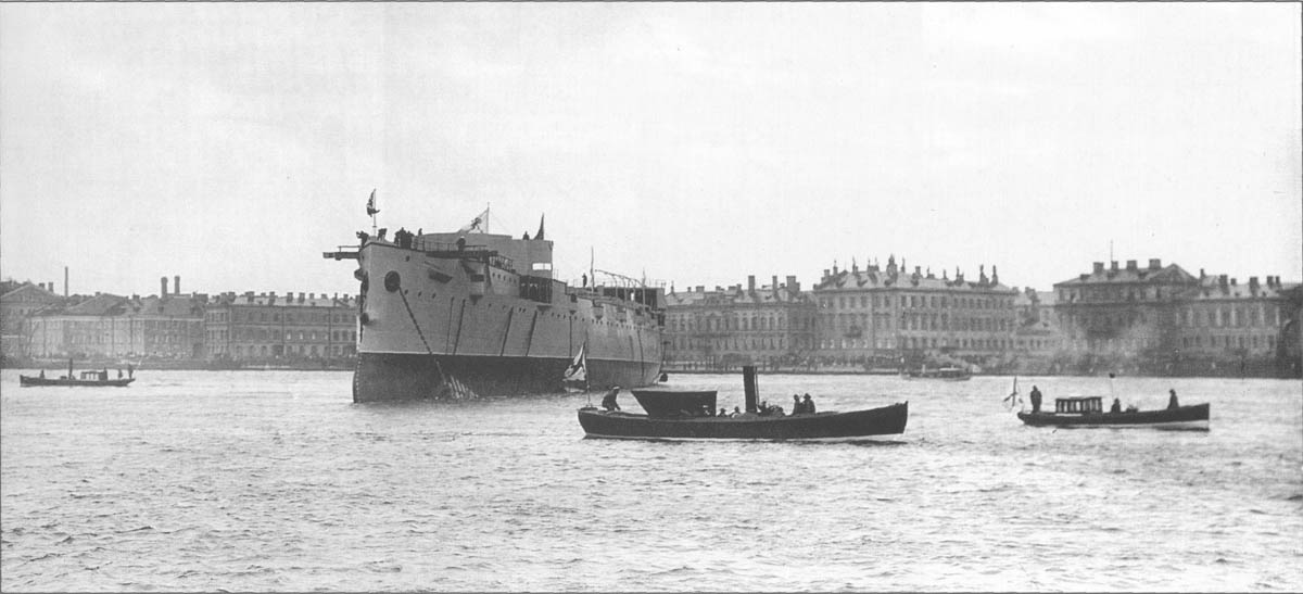 The Imperial Russian protected cruiser Oleg.